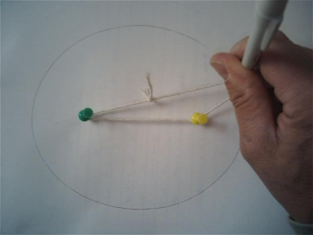 simple image of hand drawing an ellipse using pins and string method.